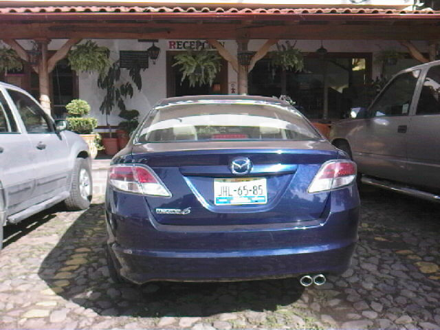 Mazda 6